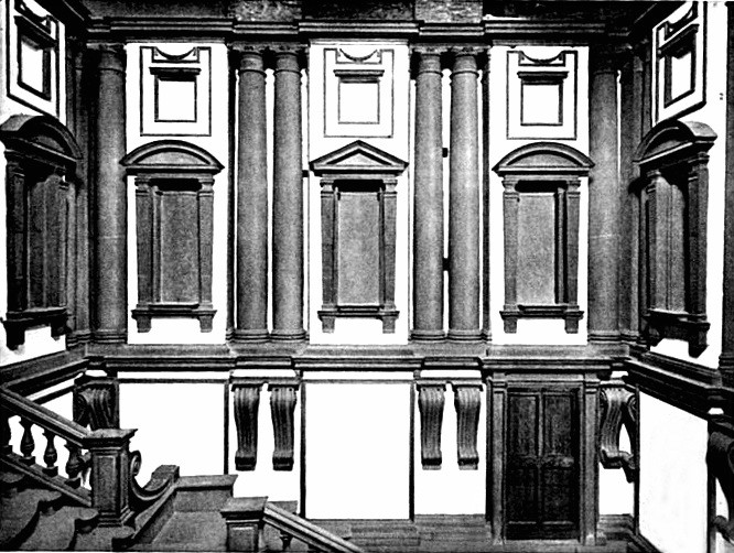 Michelangelo, Vestibule of the Laurentian Library